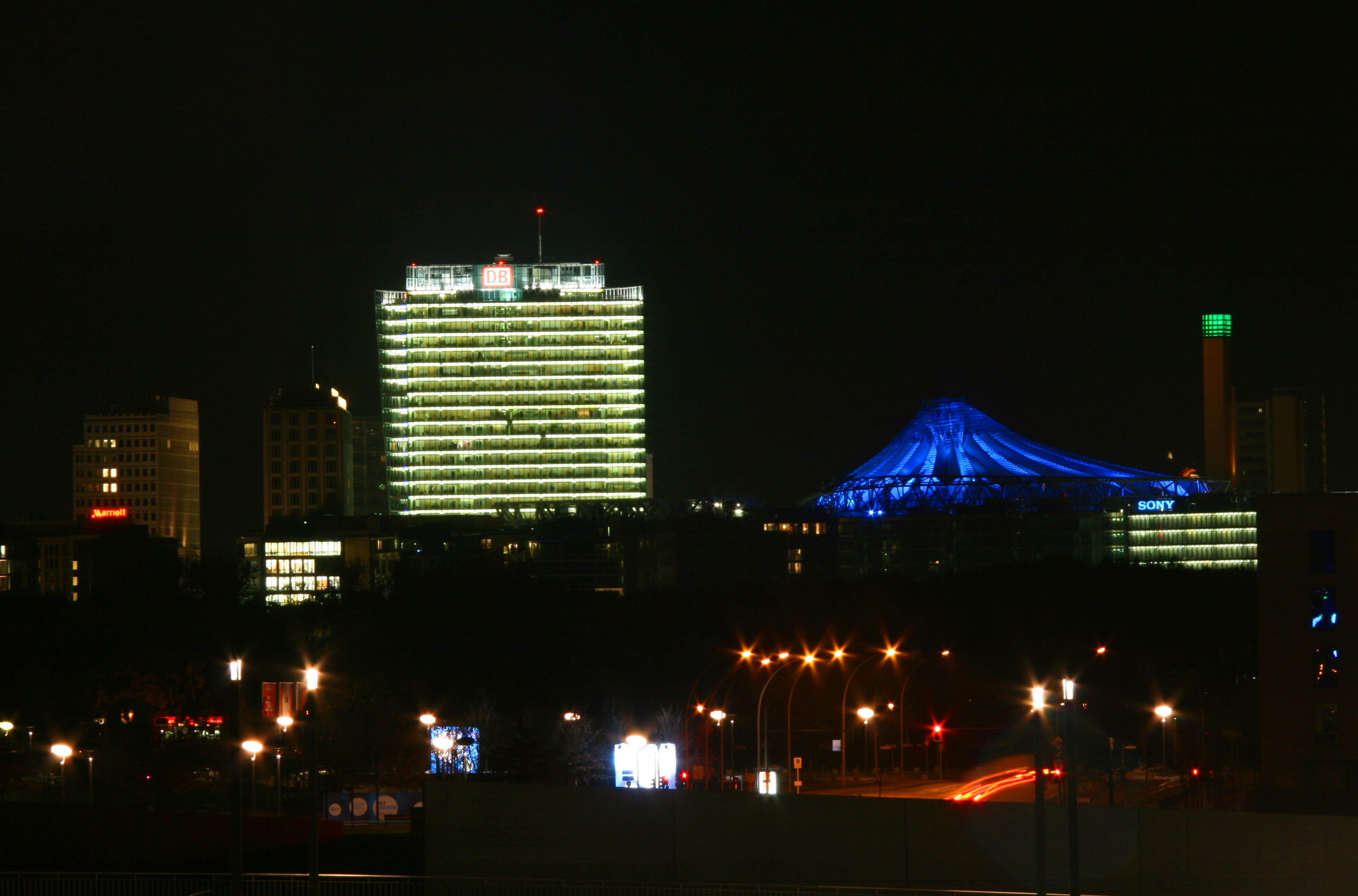 potsdamer platz in berlin: skyline at night